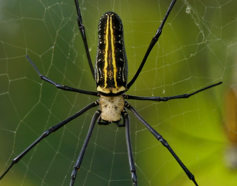 Giant Wood Spider Nephila pilipes in Kawal Wildlife Sanctuary, Andhra Pradesh, India.